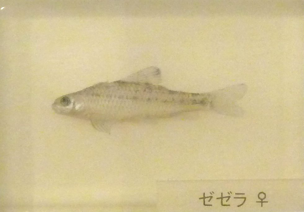 Specimen of Biwia zezera (female) at Osaka Museum of Natural History